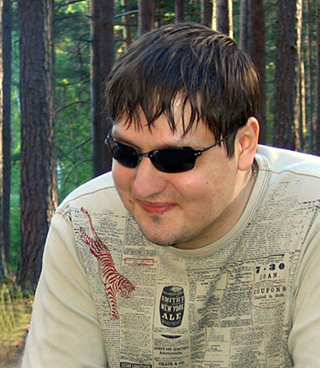 Nerva, Estonian Artist